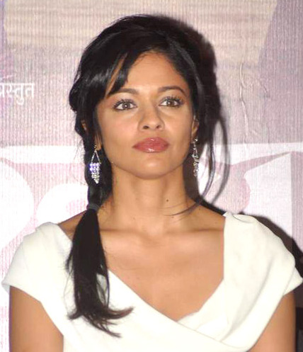 Pooja Kumar at Promotions of 'Vishwaroop' with Videocon